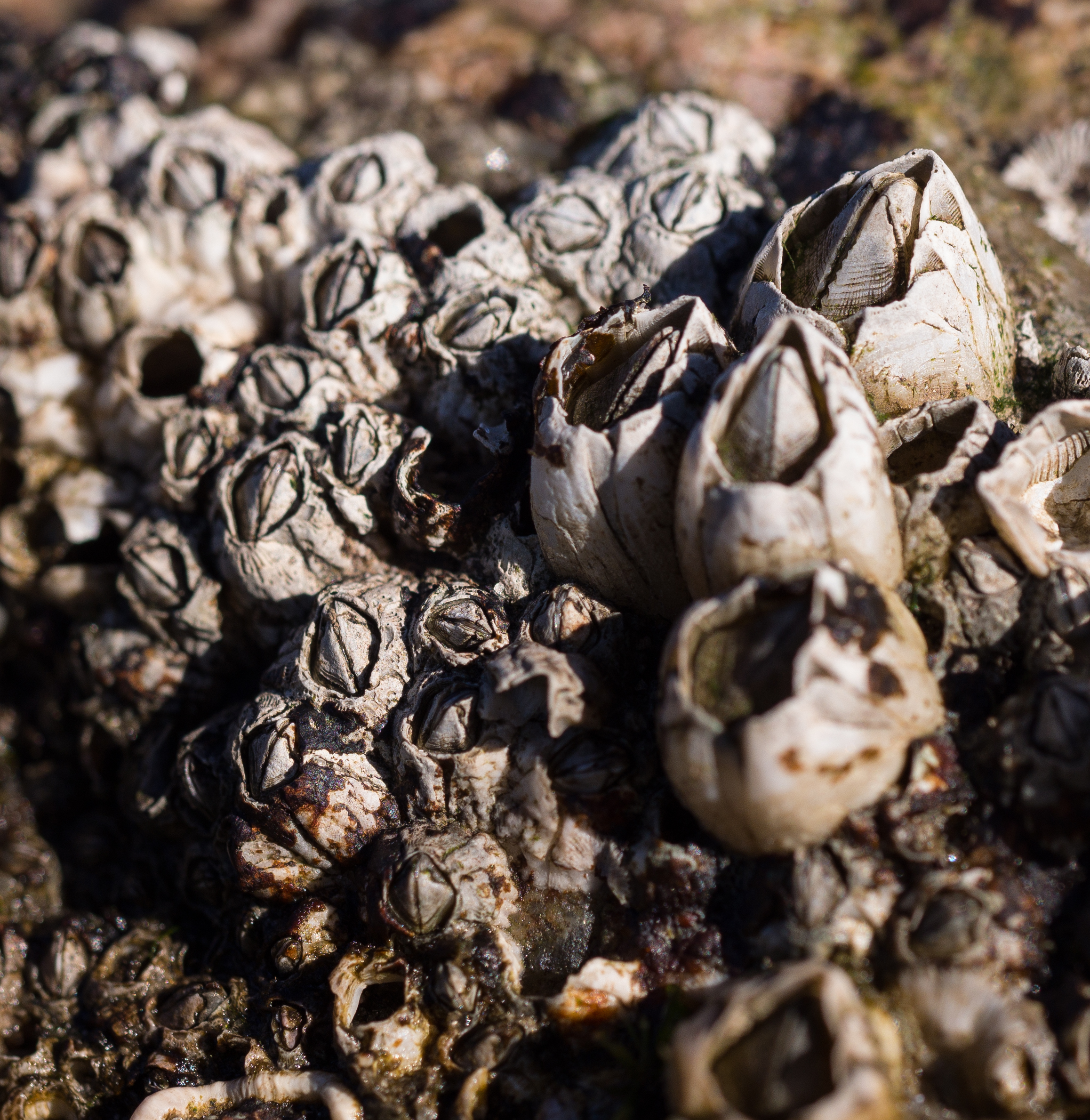 Barnacles at Napatree Point Conservation Area in the Watch Hill area of Westerly, Rhode Island.